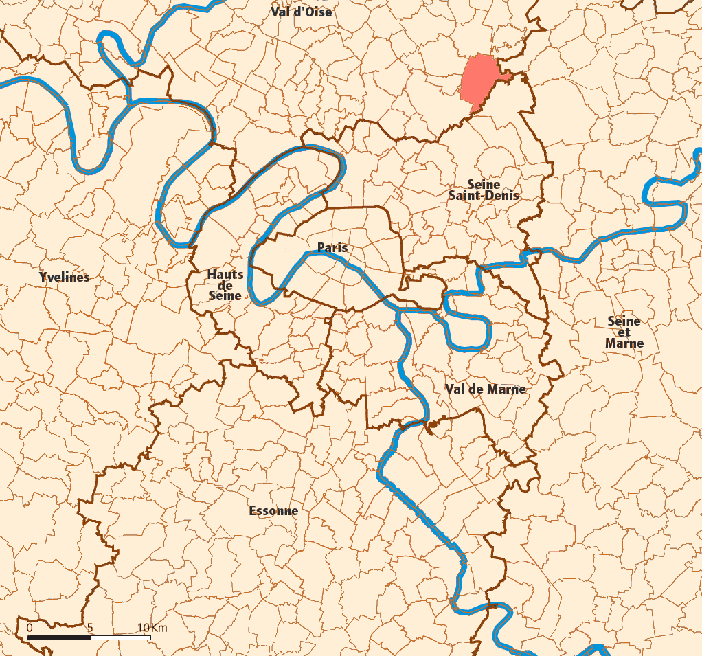 Created map myself.